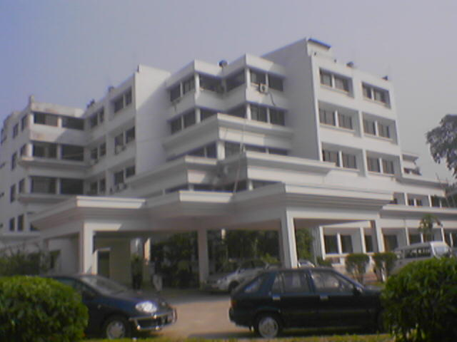 Location: Dept. of Computer Science & Engineering and Dept. of Microbiology,Dhaka University. Author: Muntasir Alam Source: Self collection